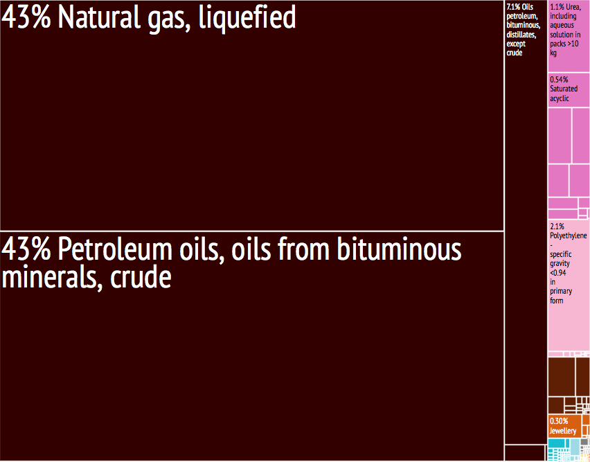 A proportional representation of Qatar's exports.